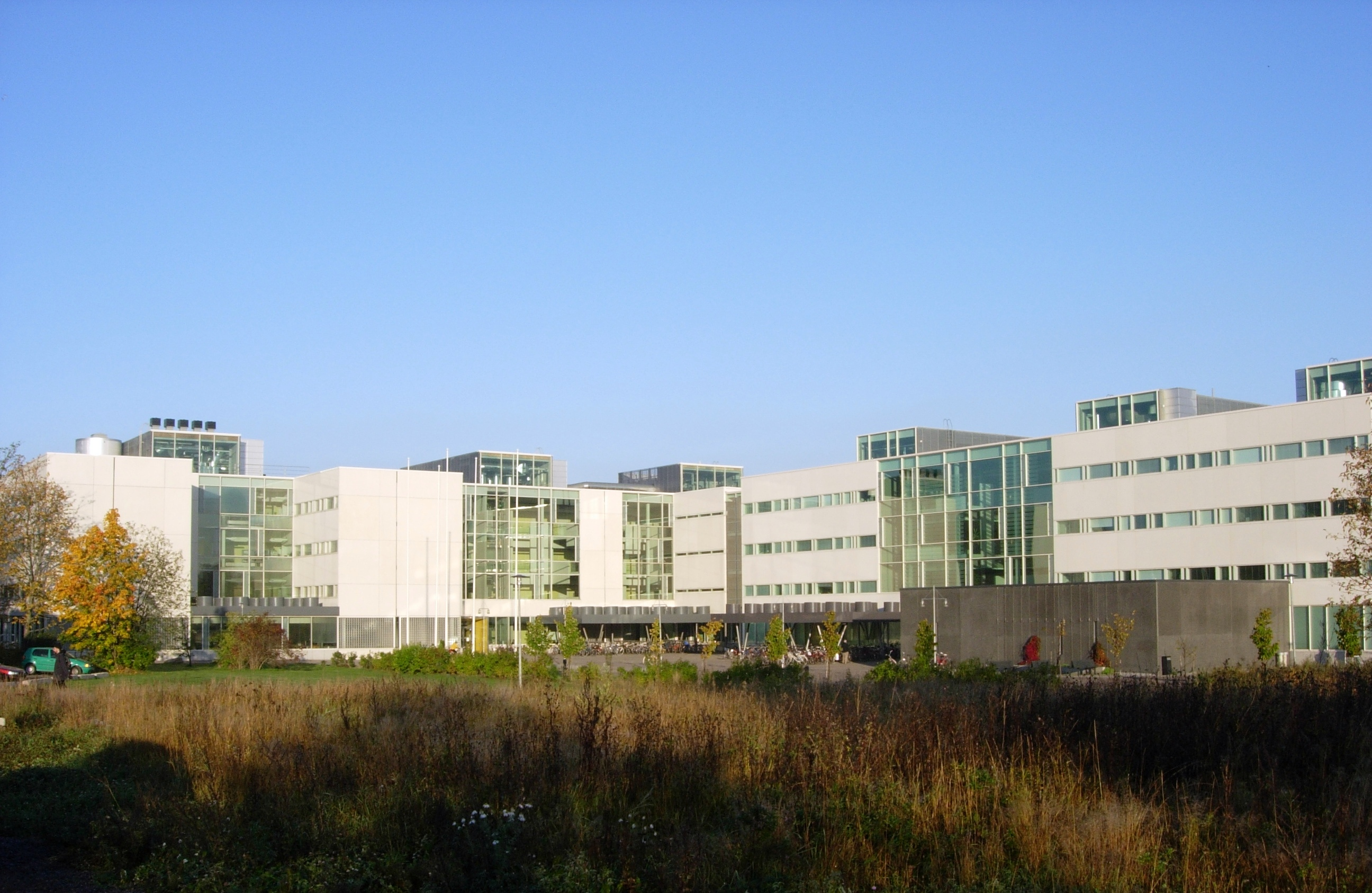 Buildings Educarium and Publicum of the University of Turku.